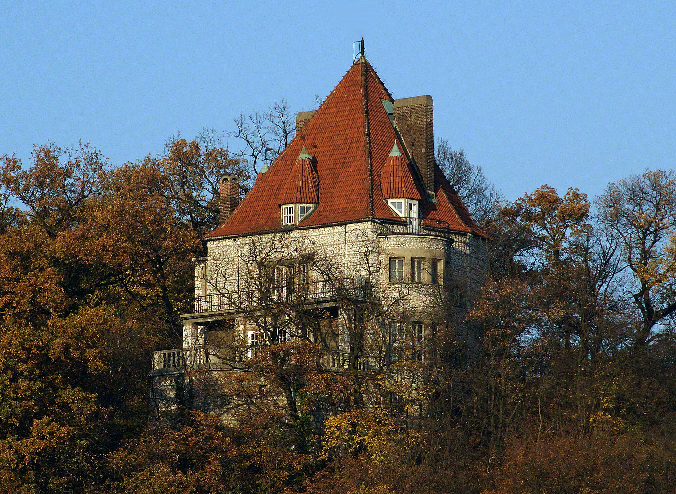 Baszta (The Tower) Villa (view from SW), 13a Jodlowa street, Przegorzaly, Krakow, Poland